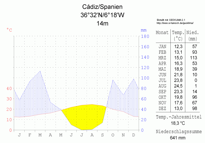 climate chart in the format by Walther and Lieth, metric, °Celsisus and millimeters, made with Geoklima 2.1